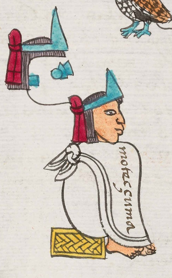 Moctezuma II, from the Codex Mendoza (folio 15v).